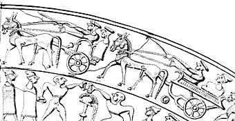 Upper frieze showing war chariots on the Vaca Situla, Slovenia - 6th century BCE